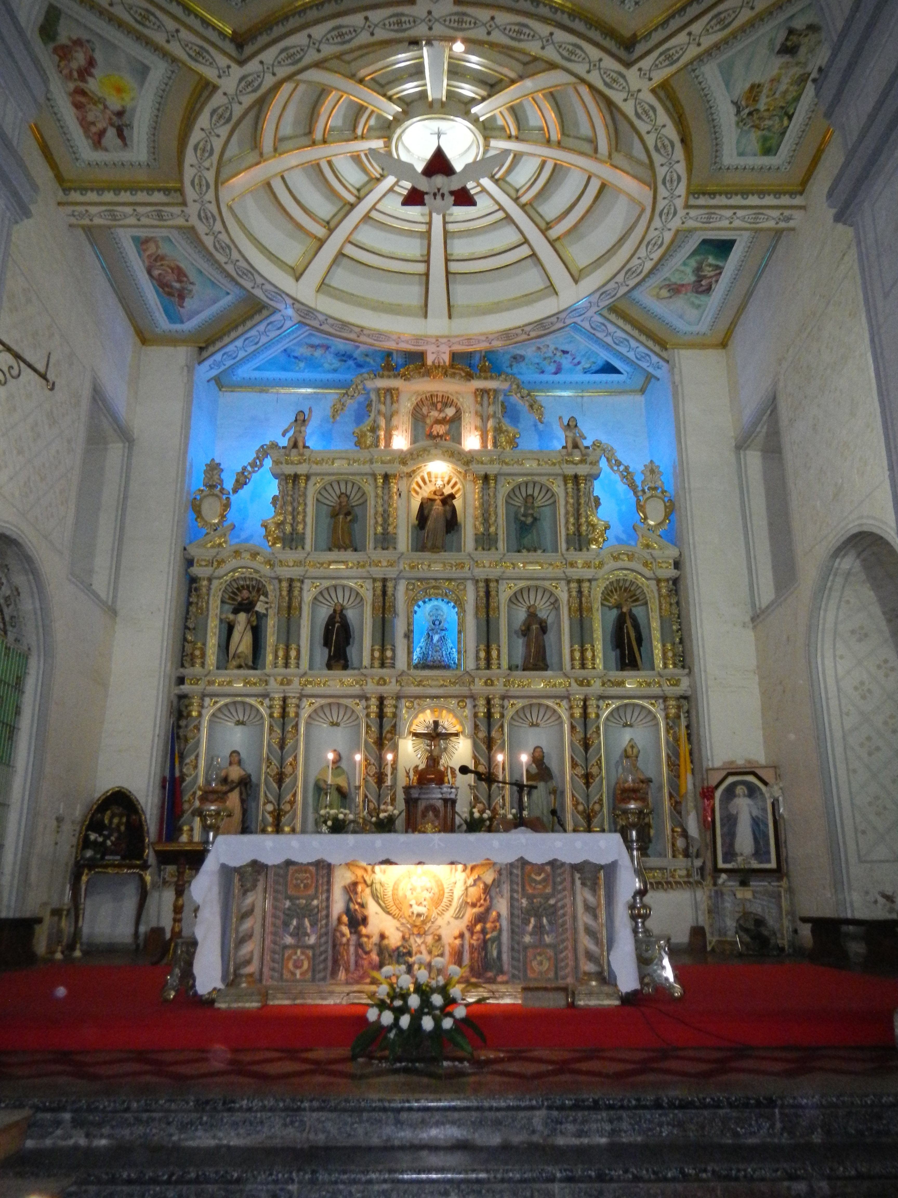 UploadWizard photos --- (general description of landmarks, heritage, culture, comprehensive, photography) of – Our Lady of Turumba[1] Nuestra Señora de los Dolores de Turumba ("Our Lady of Sorrows of Turumba") is the name for a specific statue of the Virgin Mary as Our Lady of Sorrows,[2] [3] enshrined in Diocesan Shrine of Nuestra Señora de los Dolores de Turumba - Saint Peter of Alcantara Parish Church of Pakil in Pakil, Laguna, where the image is enshrined. (belongs to the Roman Catholic Diocese of San Pablo [4] [5] Episcopal District IV Diocesan Shrine of Nuestra Señora de los Dolores de Turumba, Pakil, Laguna Vicariate of Saint James the Apostle - [6] Vicar Forane: Father Joseph B. dela Rosa Saint Peter of Alcantara Parish Address: Poblacion, Pakil 4017 Laguna, Philippine Feast day: October 19 Parish Priest: Father Alberto I. San Jose, Jr.) - Pakil, Laguna, (a fifth class urban municipality of Laguna, Philippines. According to the latest census, it has a population of 20,822. Its land area consists of two non-contiguous parts, separated by Laguna de Bay[7]. [8] Geographical location: Laguna, [9] Region 4, Philippines, Asia Geographical coordinates: 14° 22' 56" North, 121° 28' 46" East).[10]